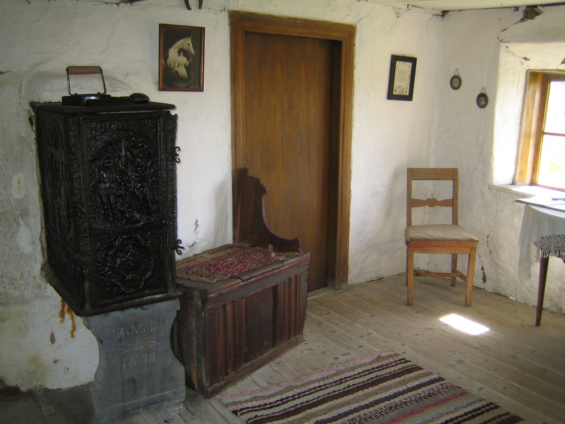 Living-room in old peasant house at Örum, Ystad, Sweden